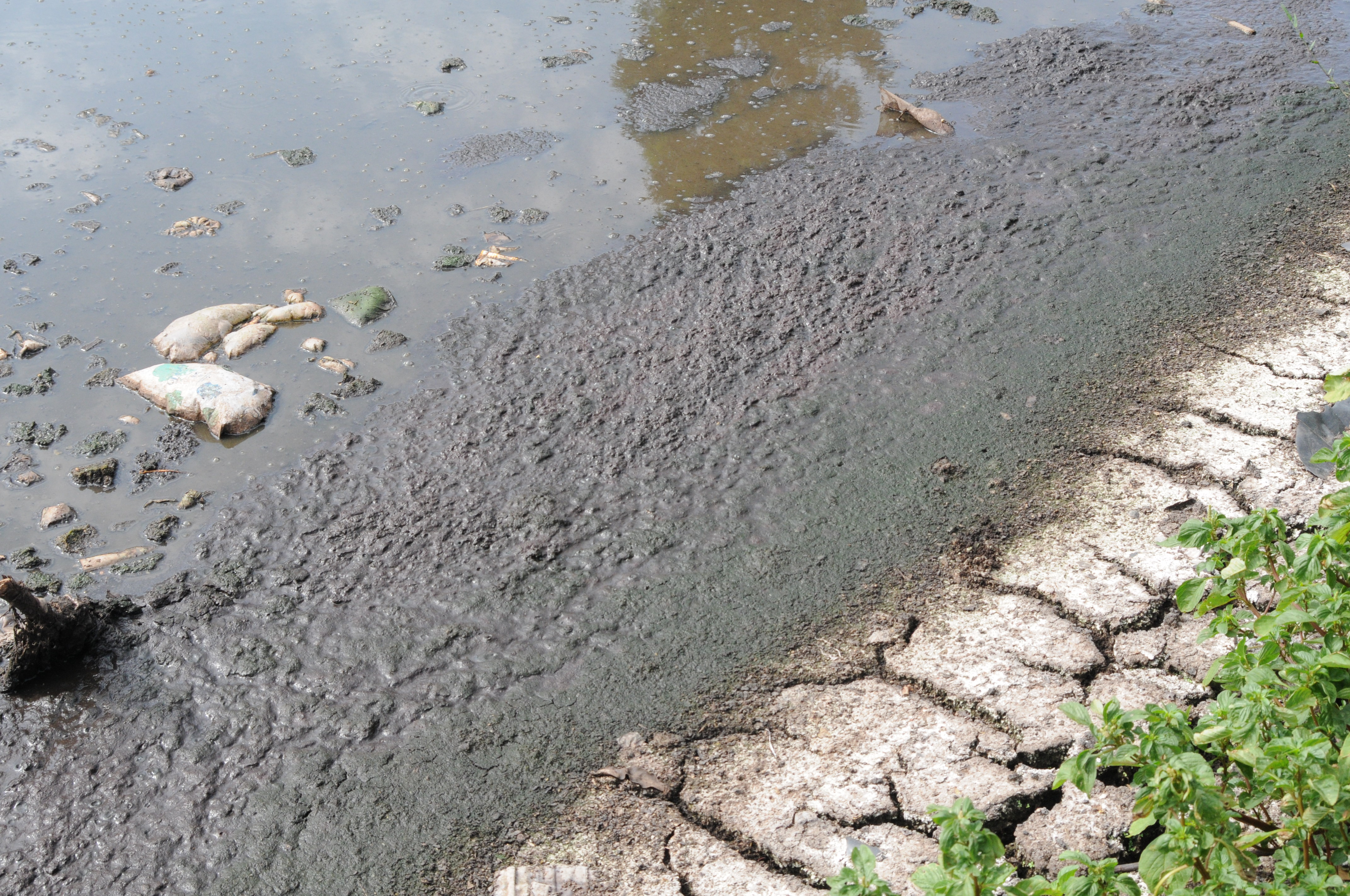 Burundi - Sanitation in Gitega / Assainissement à Gitega 2012